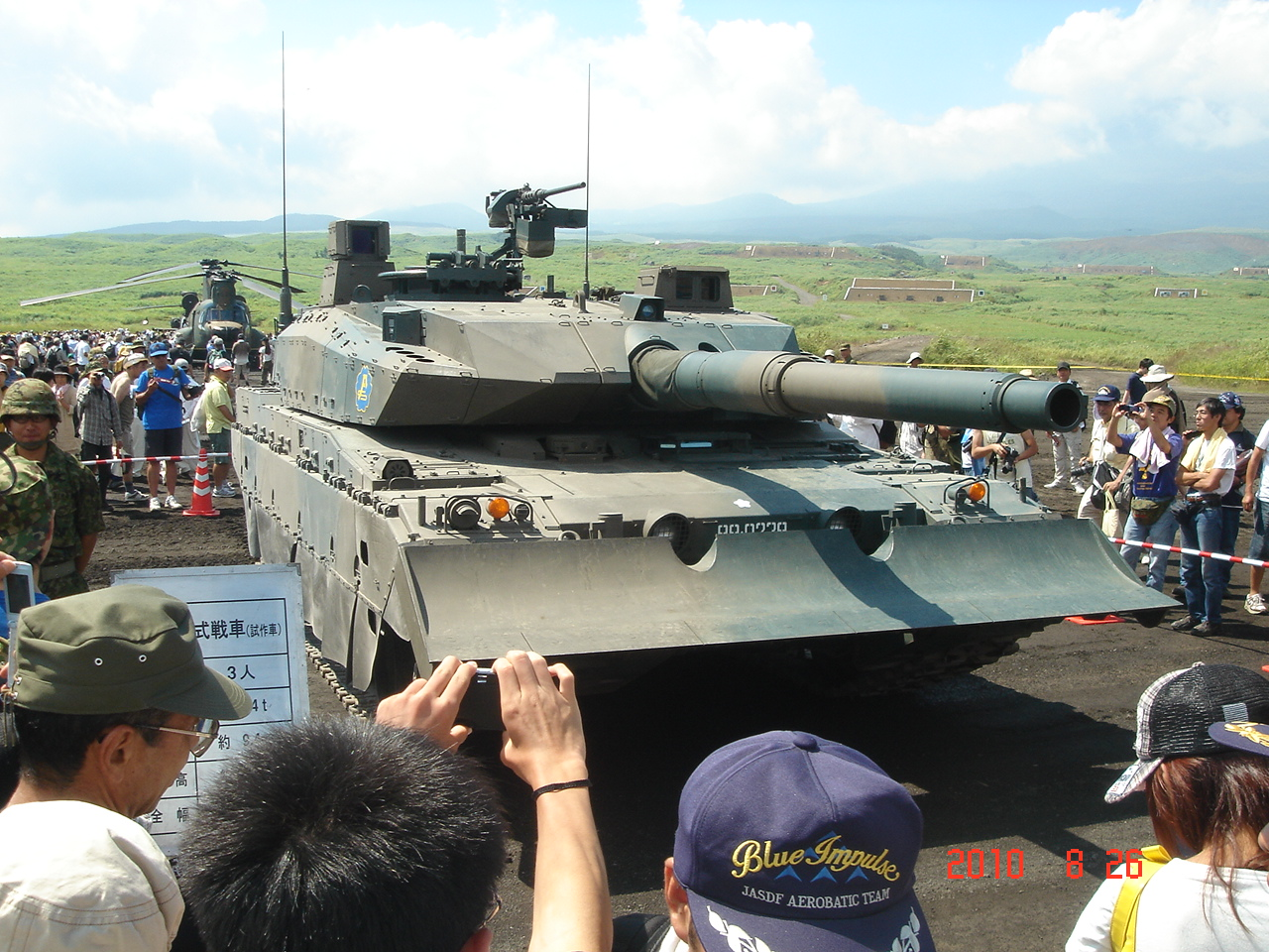 A Type 10 tank displayed during the Fuji Firepower Review 2010.